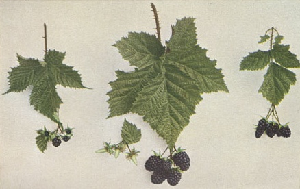 Like Leaf - Like Fruit. The color photograph print on this page shows with great clearness the importance of leaves in selection. The big, well-formed leaves are on the bushes with the big, well-formed fruits, and the poorer leaves are usually associated with the poorer fruits. Mr. Burbank often makes a first selection of seedings from the leaves, not deeming it necessary to wait until the fruits have appeared.